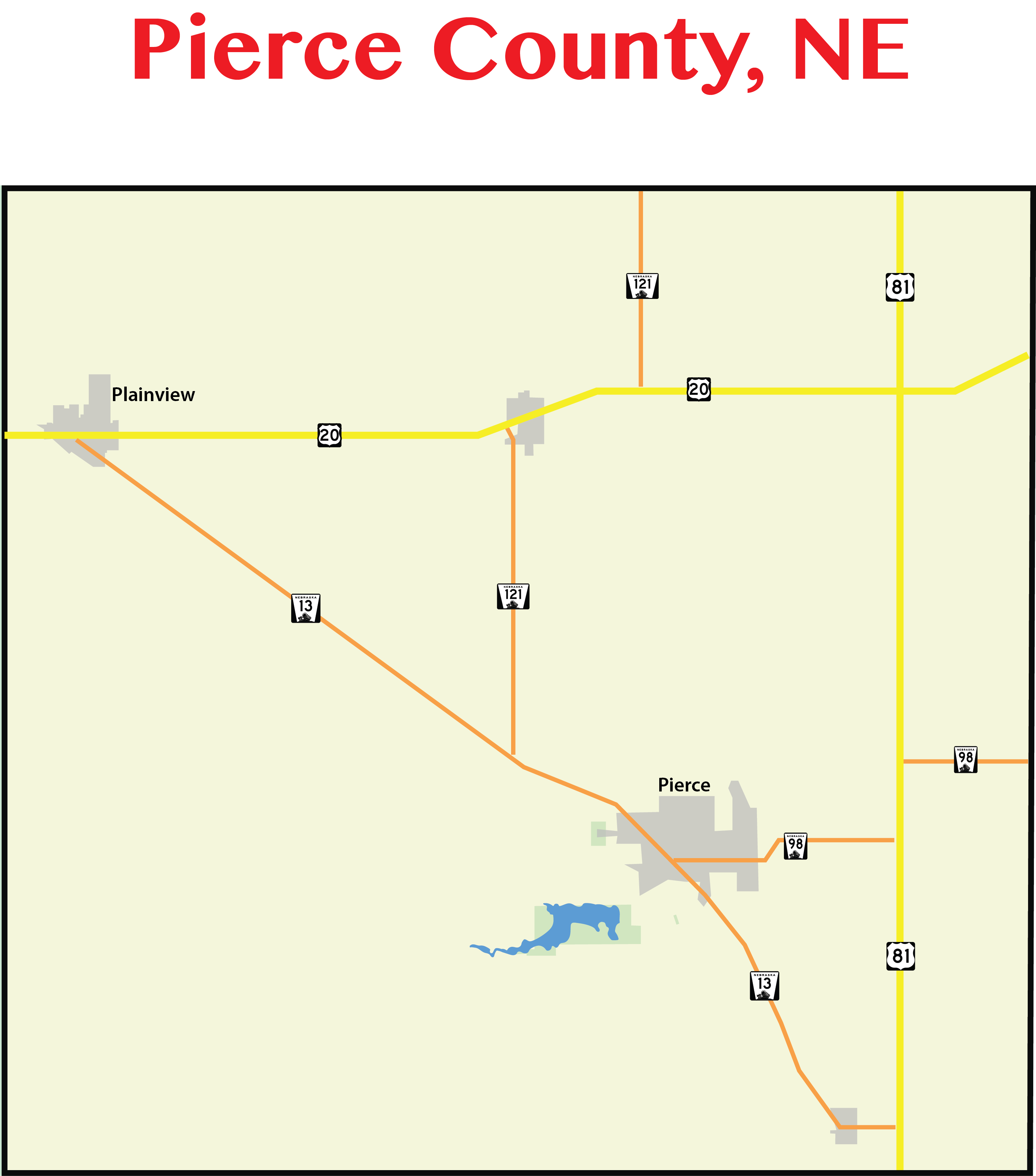 Pierce County map in Nebraska